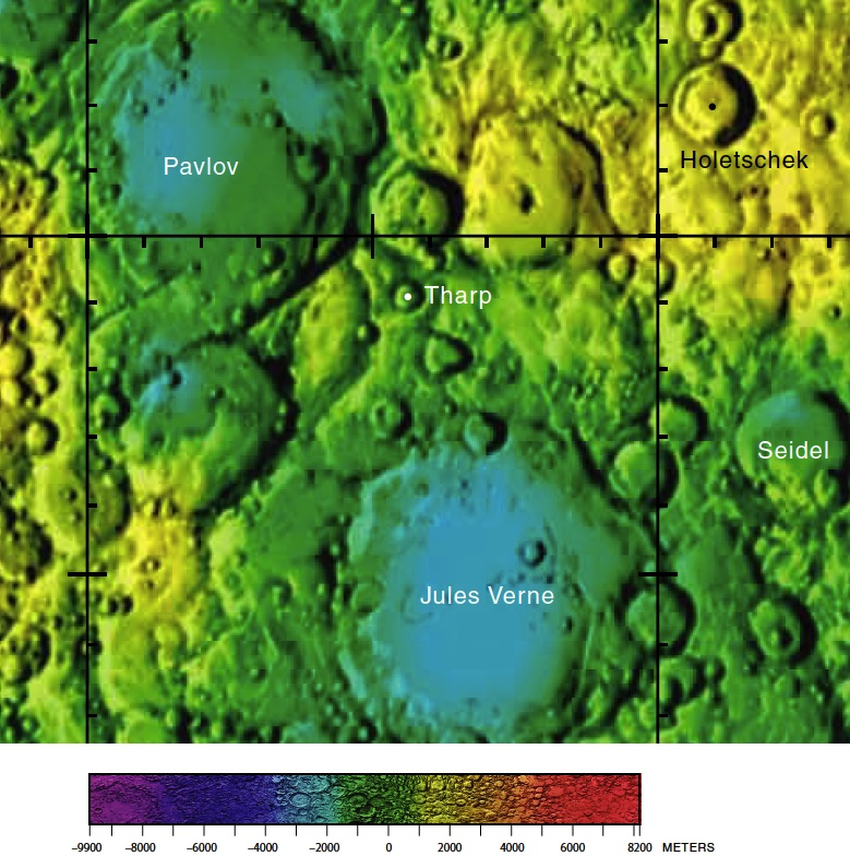 Part of the USGS Moon far side map.